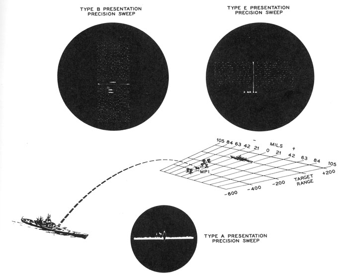 Splash Indication of a Six Gun Salvo